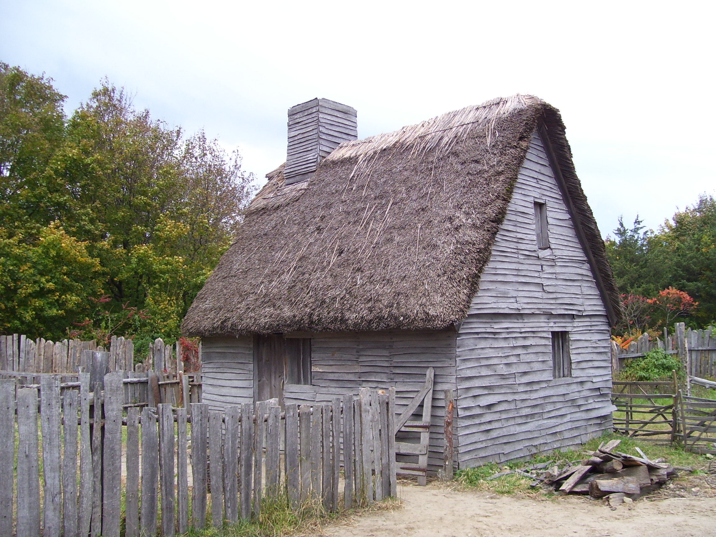 My 2009 photo of a Pilgrim House (George Soule and Mary Soule's)from Plimoth Plantation in Plymouth, Massachusetts, USA.